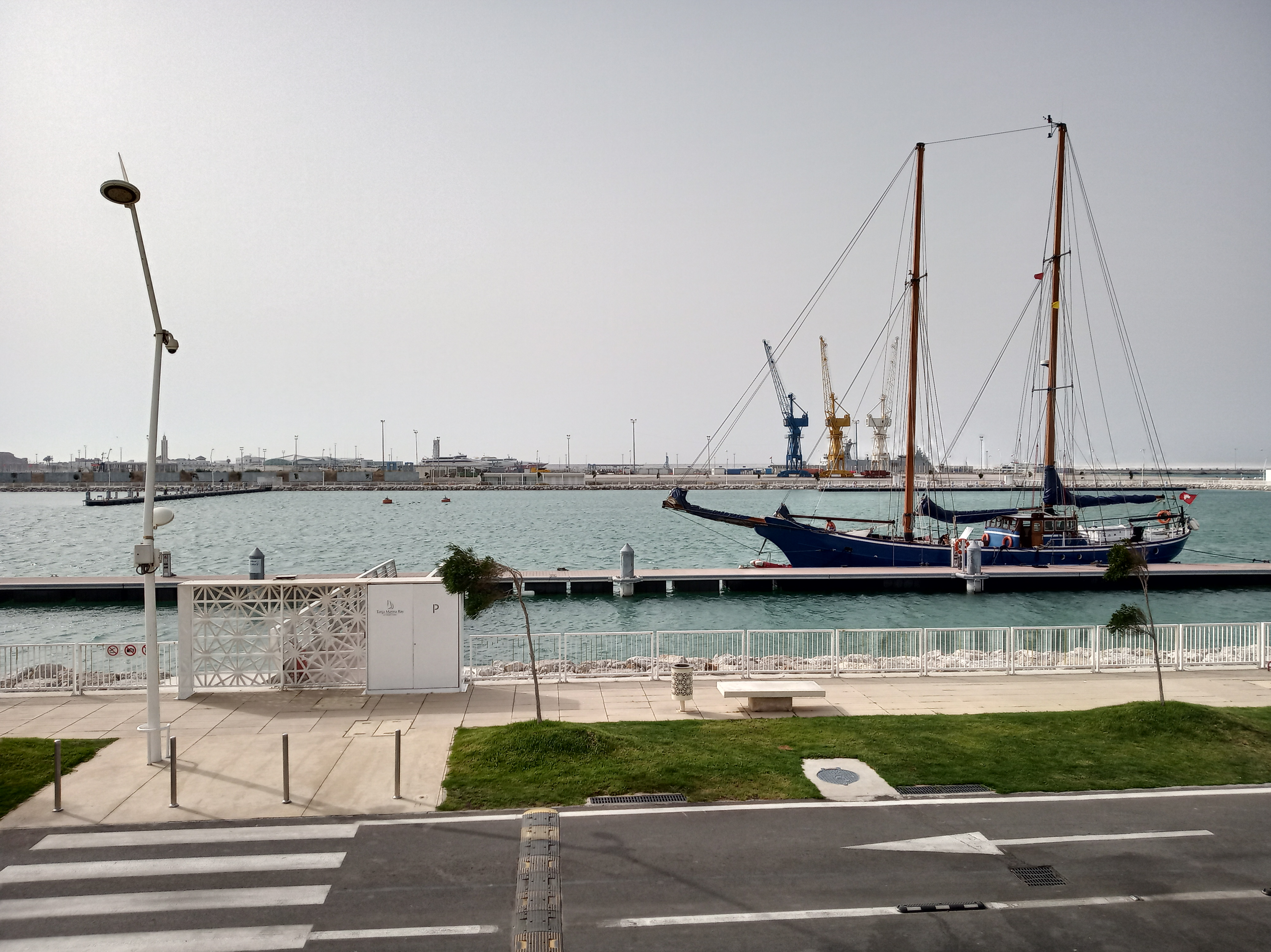 This is an image with the theme "Africa on the Move or Transport" from: Morocco